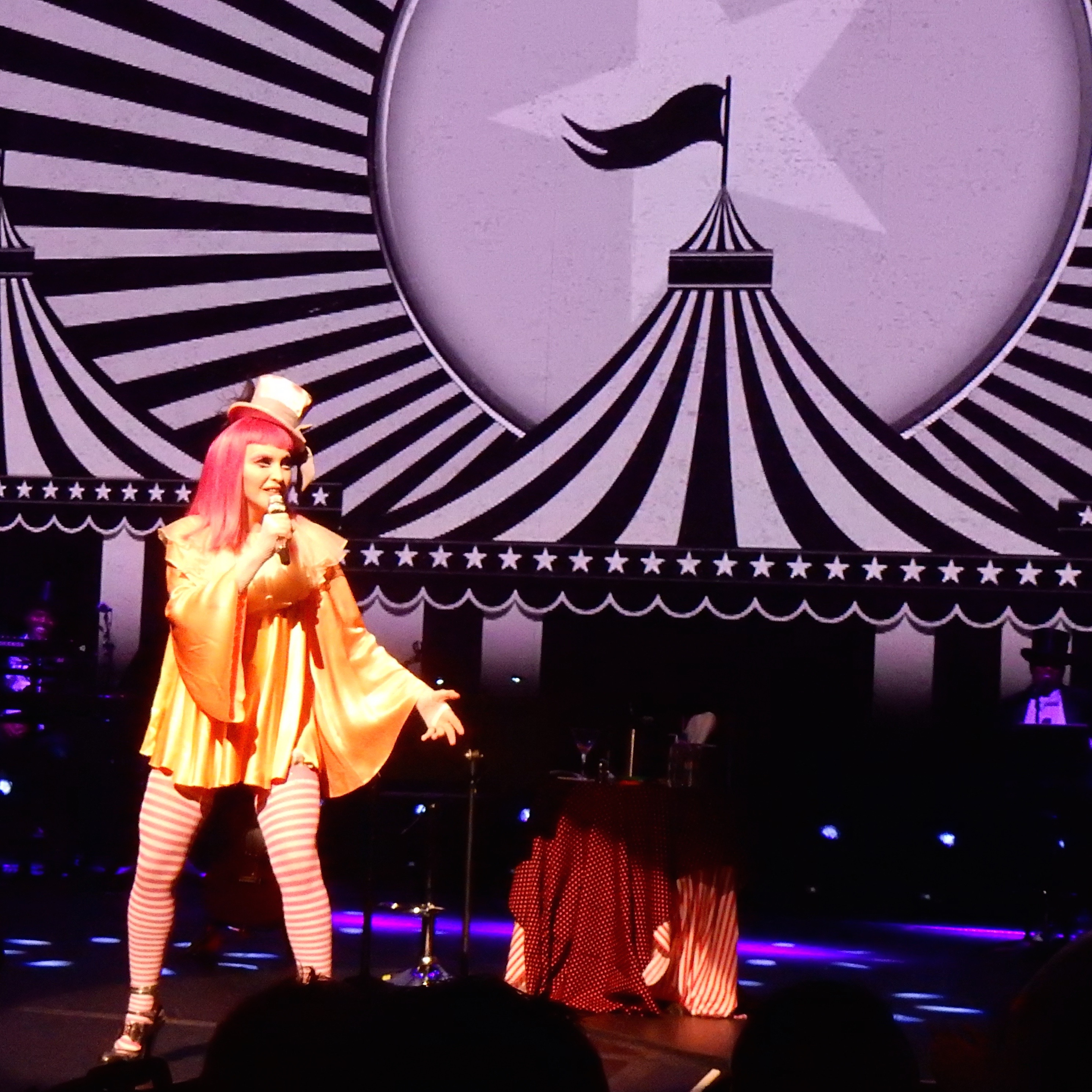 Special fan only show at The Forum, Melbourne, 10 March 2016